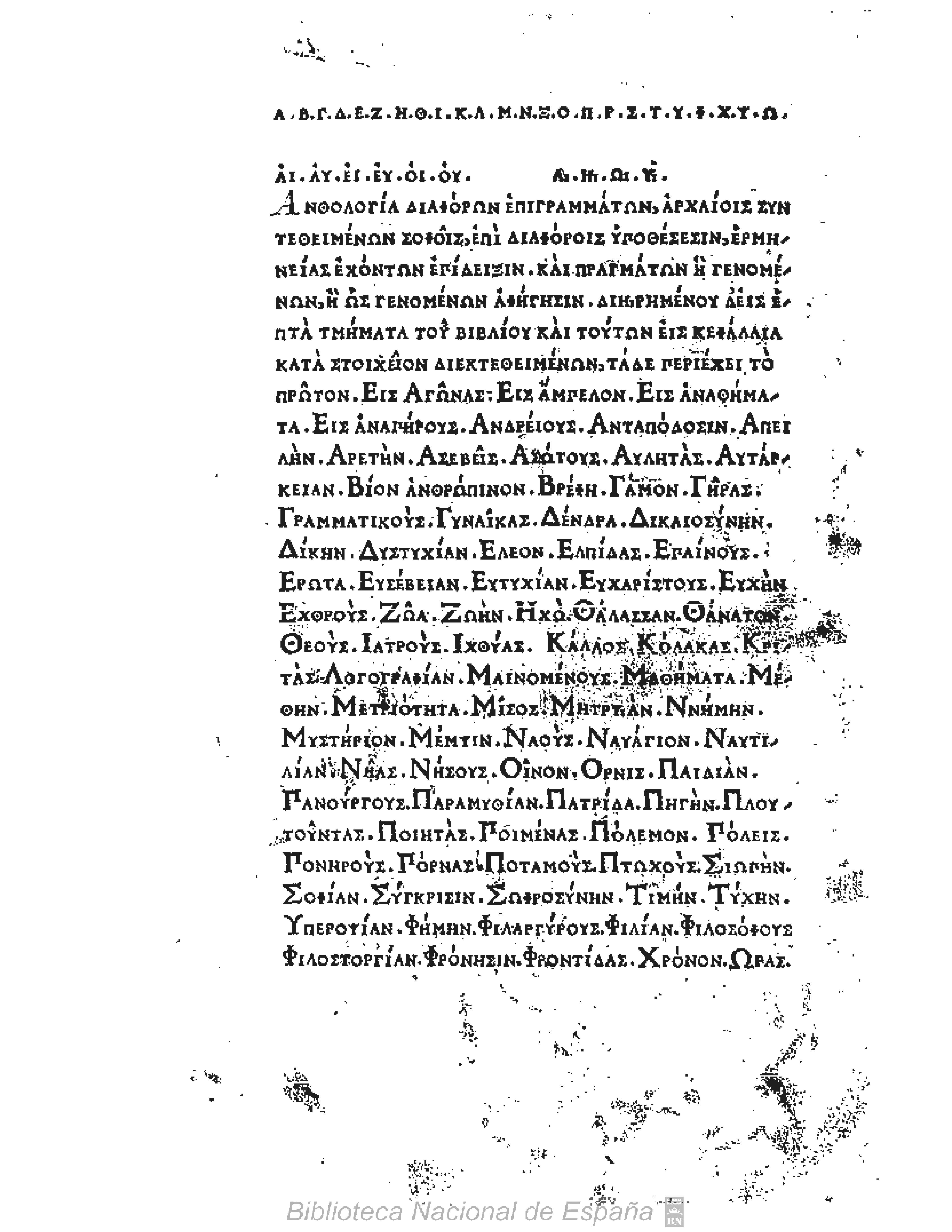 The first page of Anthologia Planudea, Ed. Janus Lascaris, 11 VIII 1494 From copy in Biblioteca Nacional de España, page 20 from link